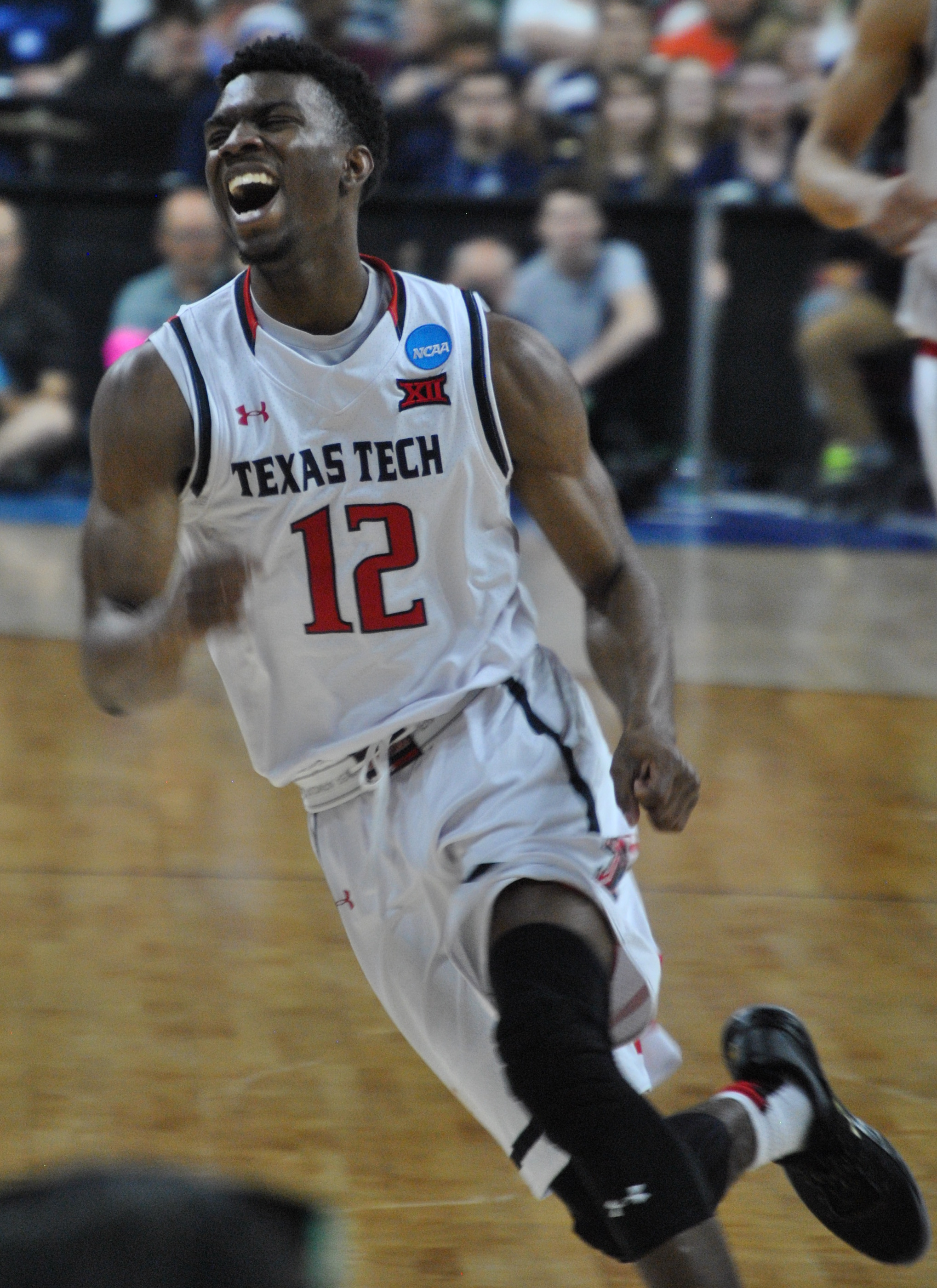 Texas Tech's Keenan Evans reacts during the 2016 NCAA Basketball Tournament in Raleigh, North Carolina